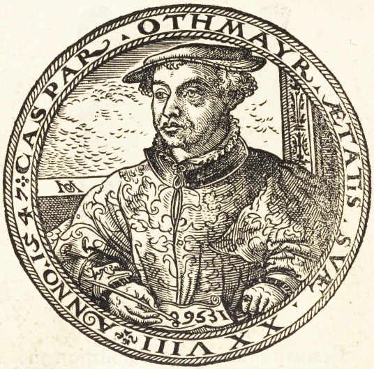 German theologian and composer Caspar Othmayr (1515-1553).